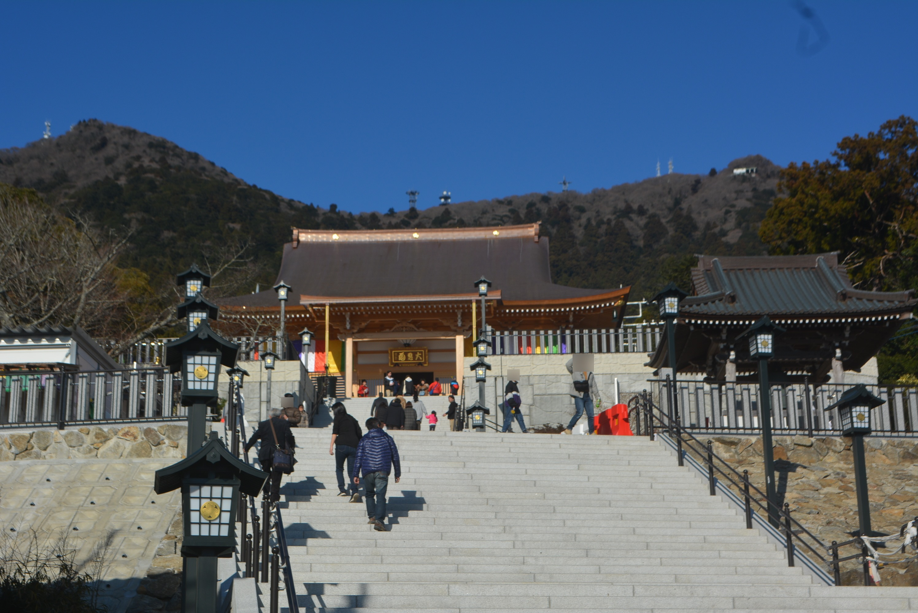 New Ōmi-dō temple and Mount Tsukuba. Tsukuba city. Japan.